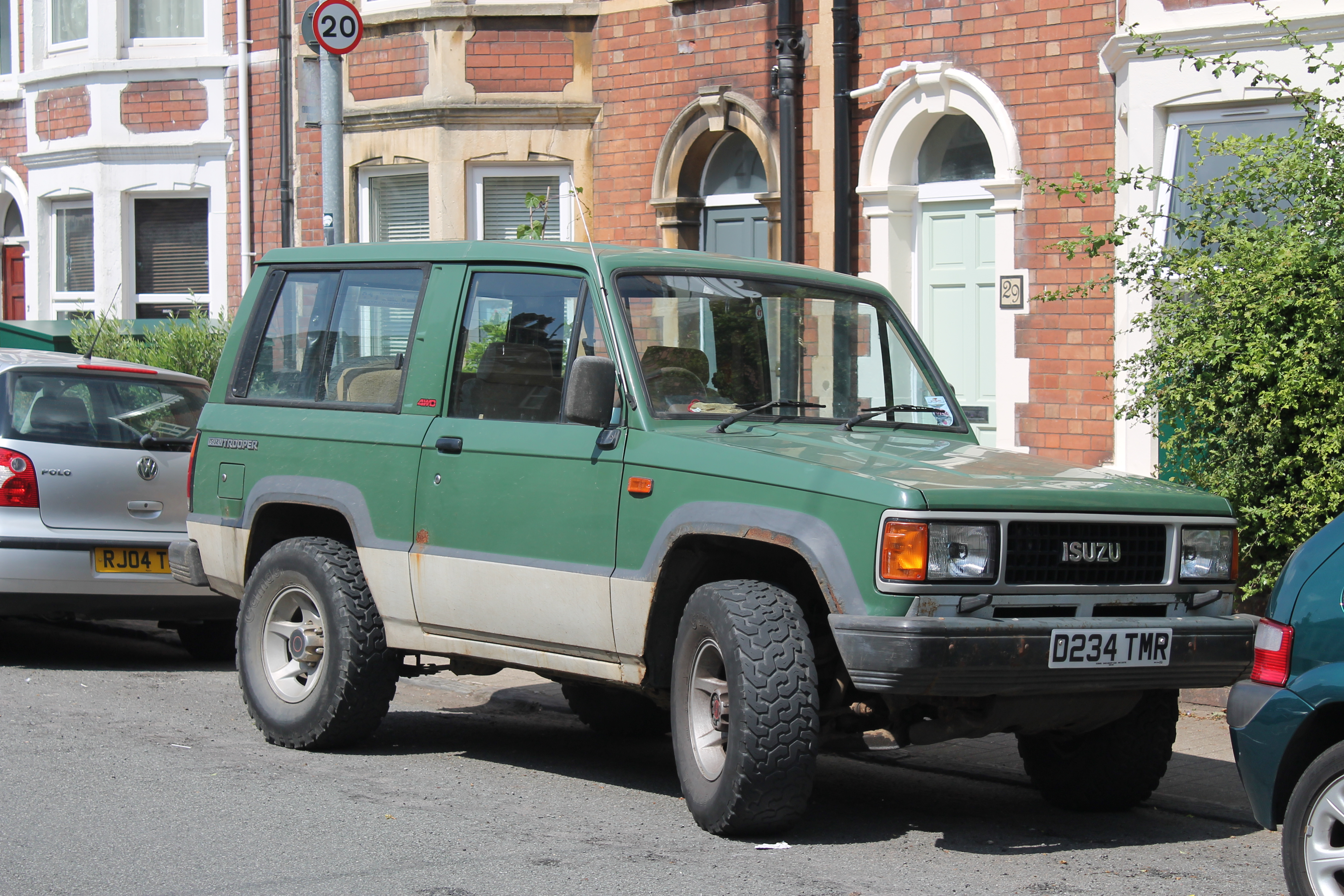 These early first generation Troopers are really rather rare now. I can't recall seeing one before in recent memory. This is the only 1987 example still on the roads. I love the colour of this one, and the condition was most certainly 'well used'! It was looking quite rusty in some places. Lovely though! The vehicle details for D234 TMR are: Date of Liability 01 08 2014 Date of First Registration 28 05 1987 Year of Manufacture 1987 Cylinder Capacity (cc) 2254cc CO₂ Emissions Not Available Fuel Type PETROL Export Marker N Vehicle Status Licence Due to Expire Vehicle Colour GREEN Vehicle Type Approval Not Available